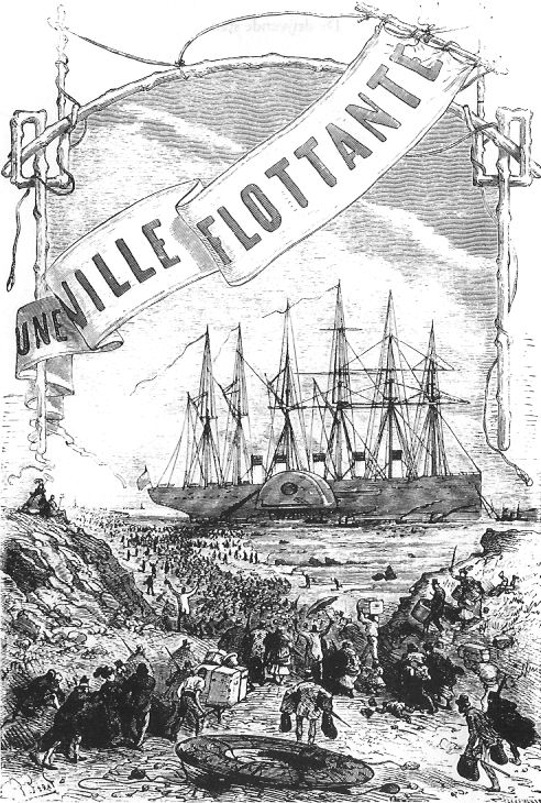 An illustration from Jules Verne's novel "A Floating City" (1869) drawn by Jules Férat.